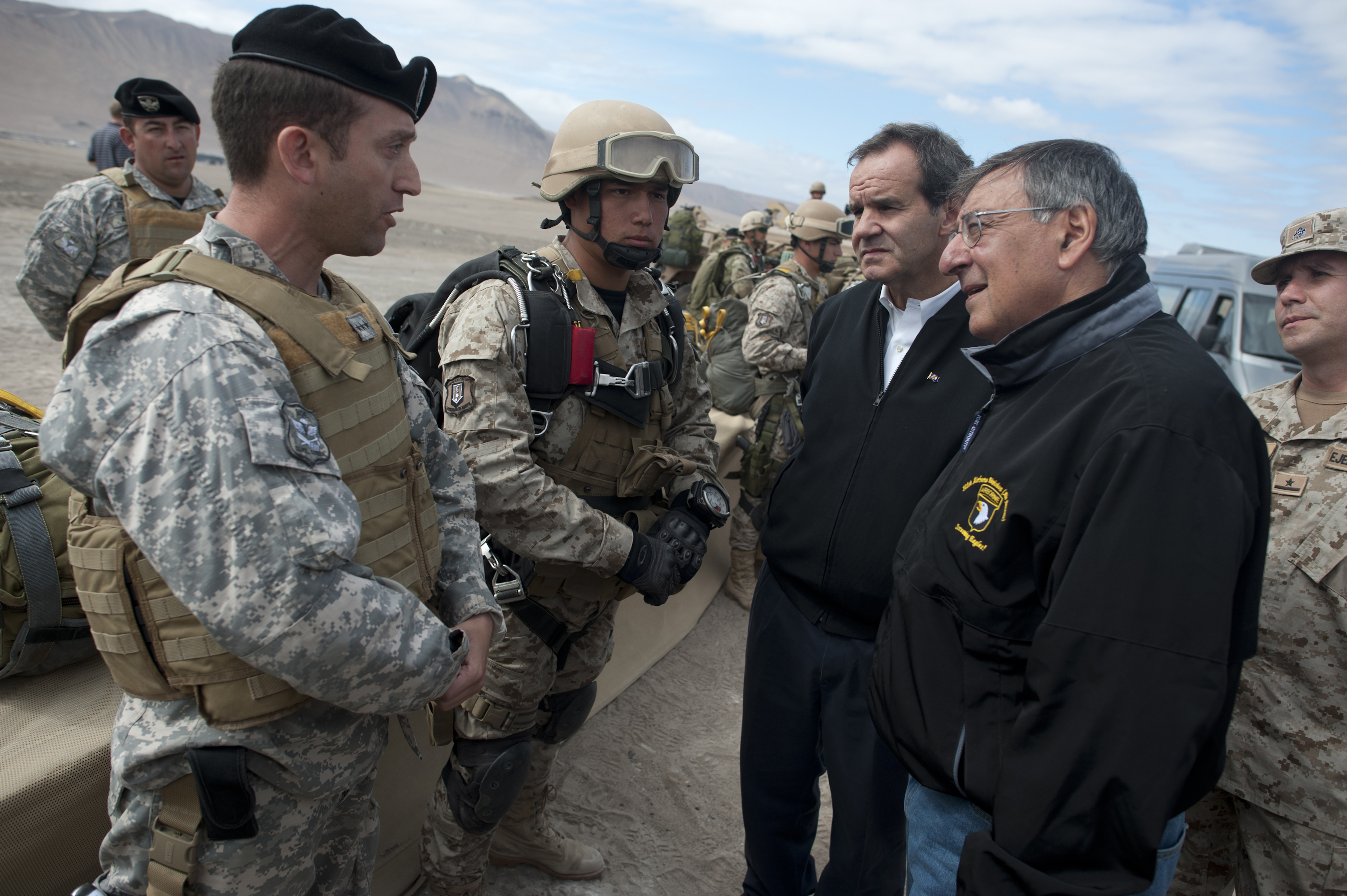 Secretary of Defense Leon E. Panetta and Chilean Minister of National Defense Andres Allamand speak with Chilean Special Forces soldiers after a demonstration of their capabilities at Los Candores Air Base, Iquique, Chile, on April 27, 2012. Chile is the final stop on a five-day trip to the region to meet with counterparts and military officials in Brazil, Colombia and Chile to discuss an expansion of defense and security cooperation.